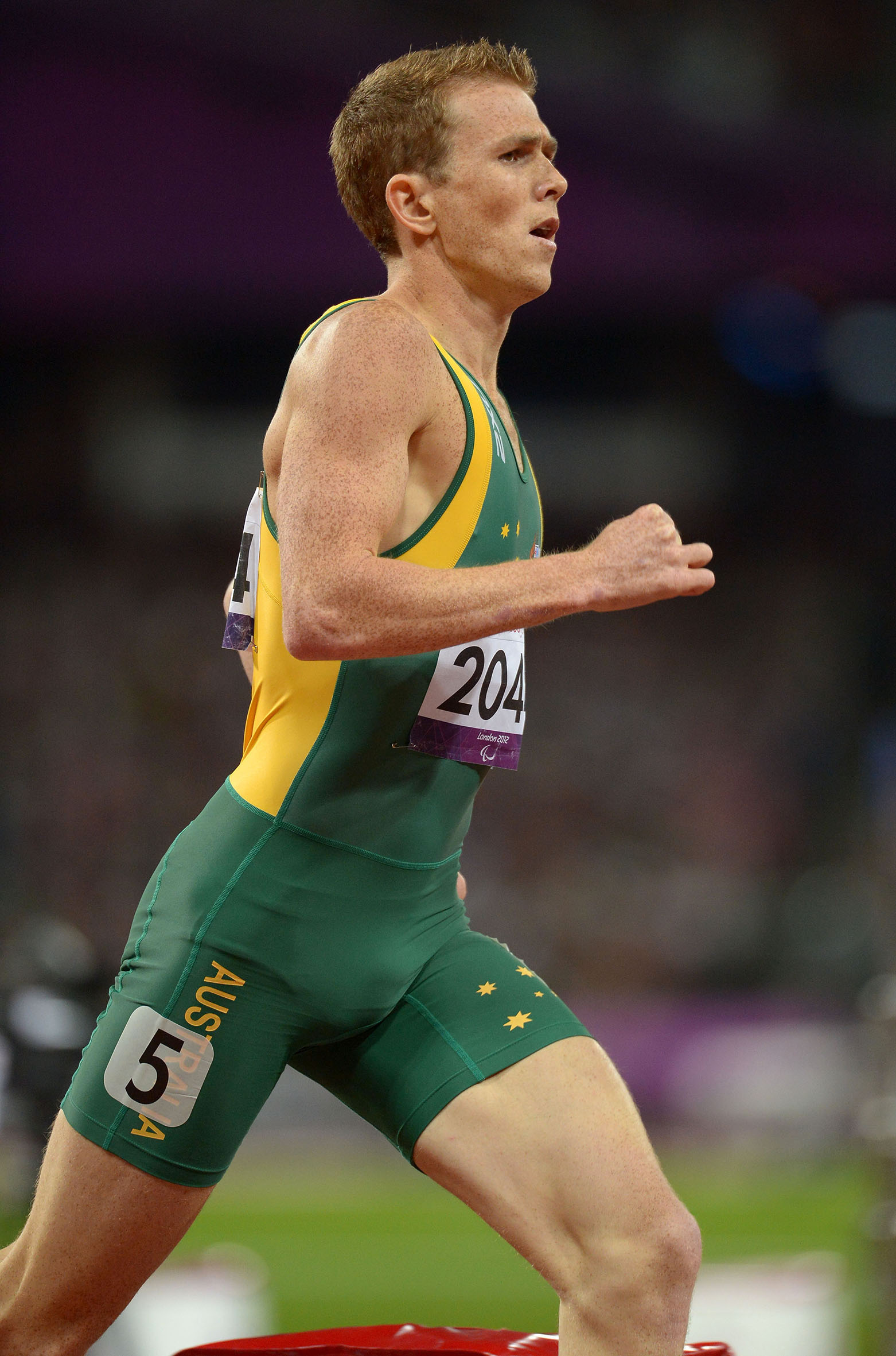 Photograph of Australian Paralympic team member Brad Scott at the 2012 Summer Paralympic Games in London